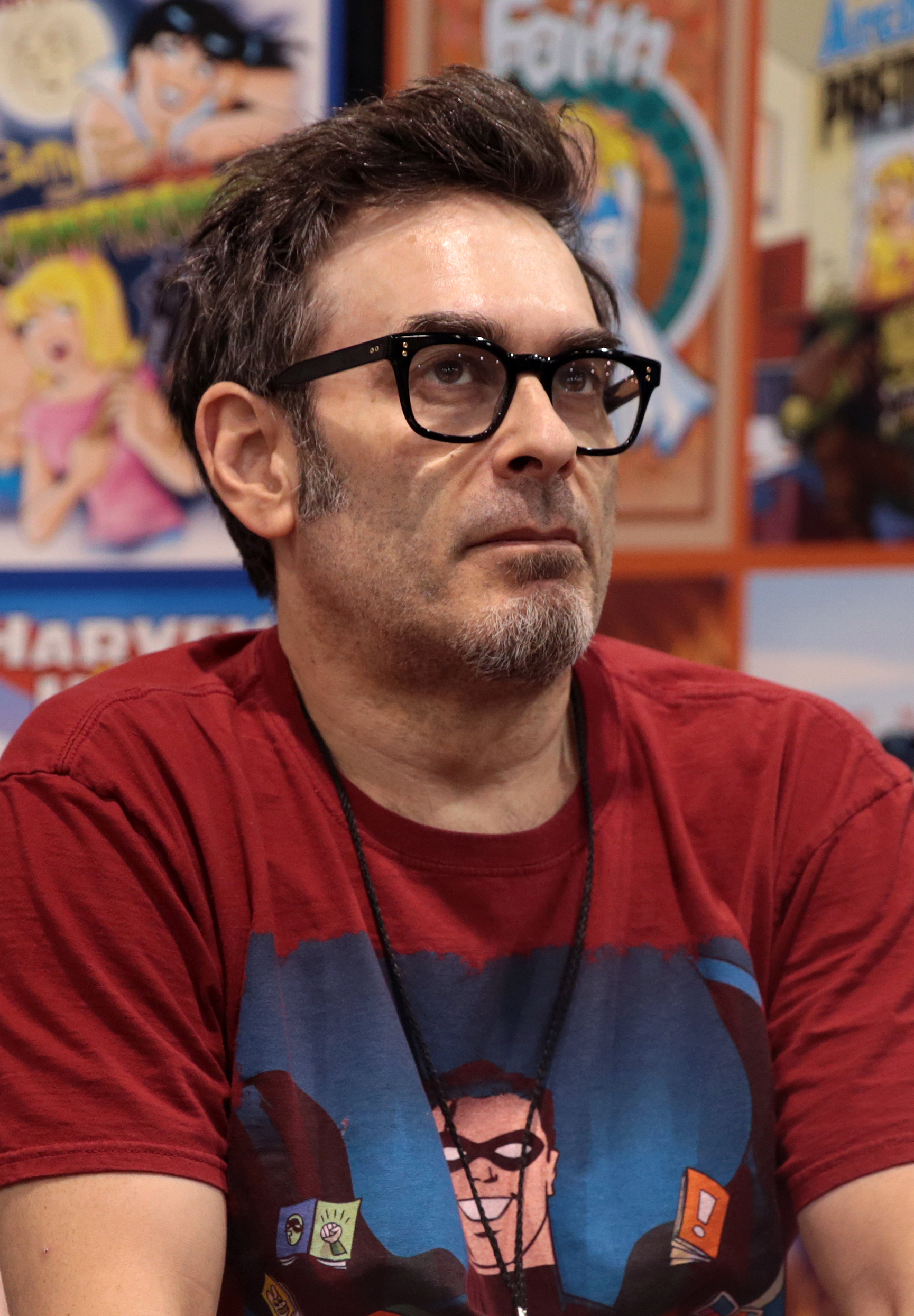 Dan Parent speaking at the 2018 Phoenix Comic Fest in Phoenix, Arizona.